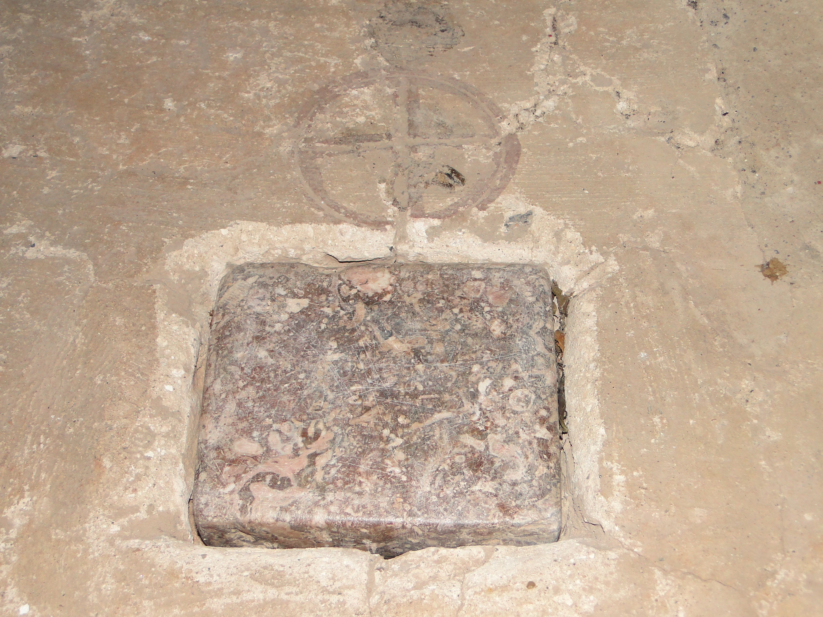 Church in Ruest, district Ludwigslust-Parchim, Mecklenburg-Vorpommern, Germany